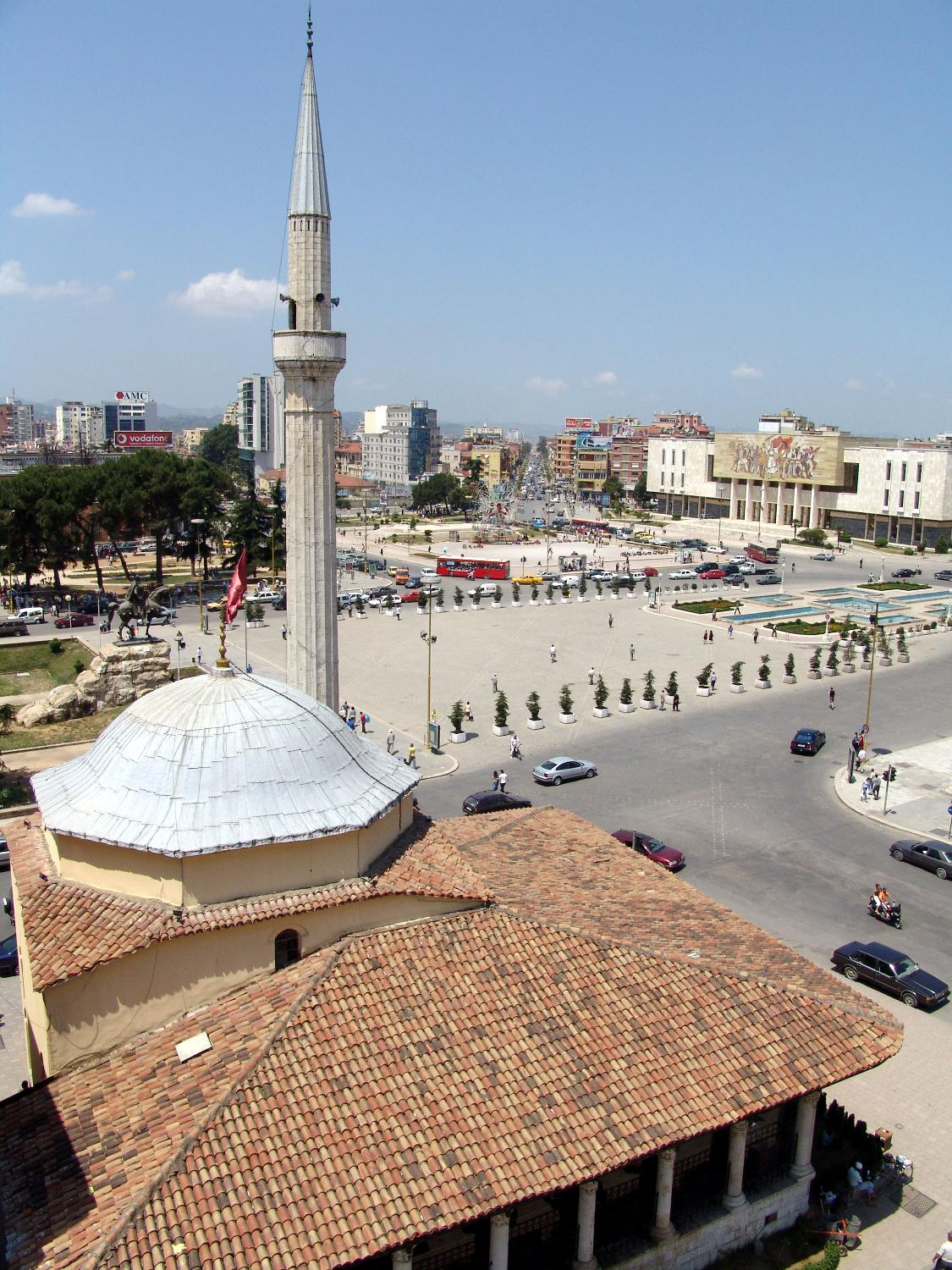 Skanderbeg Square in the center of Tirana as viewed from the city's clock tower. Visit The World Factbook for more information about Albania.